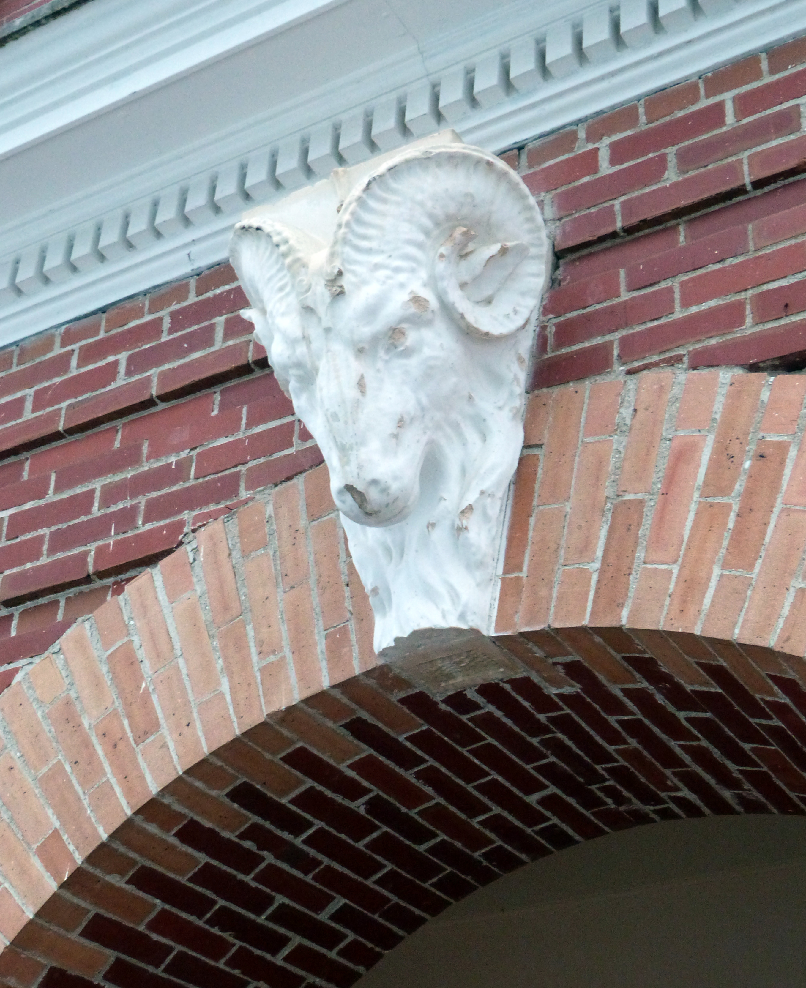 The historic Clayton School (built 1915) in Clayton, Washington, United States, is listed on the US National Register of Historic Places. This keystone is located above the main entry to the school.